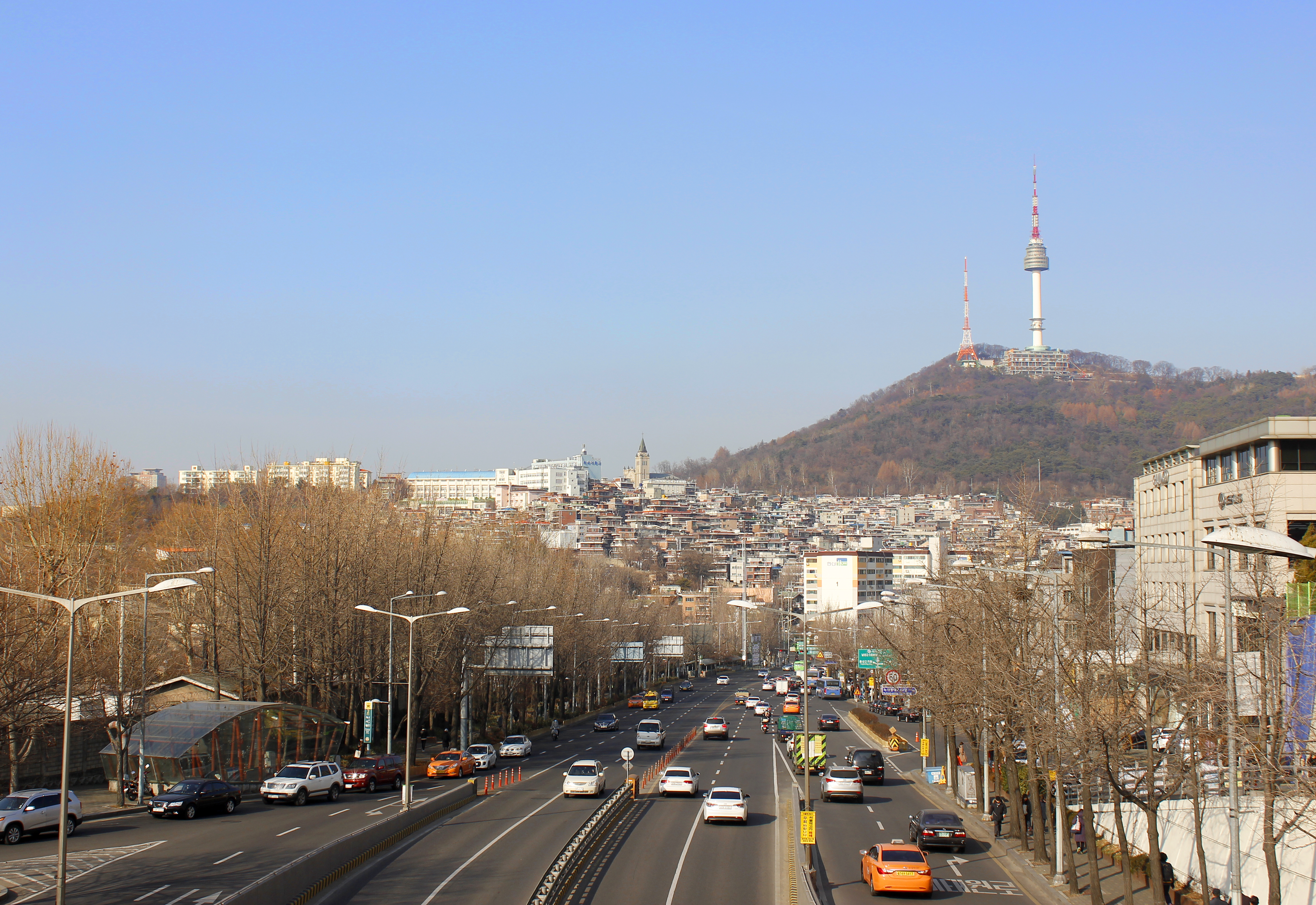 Noksapyeongdaero